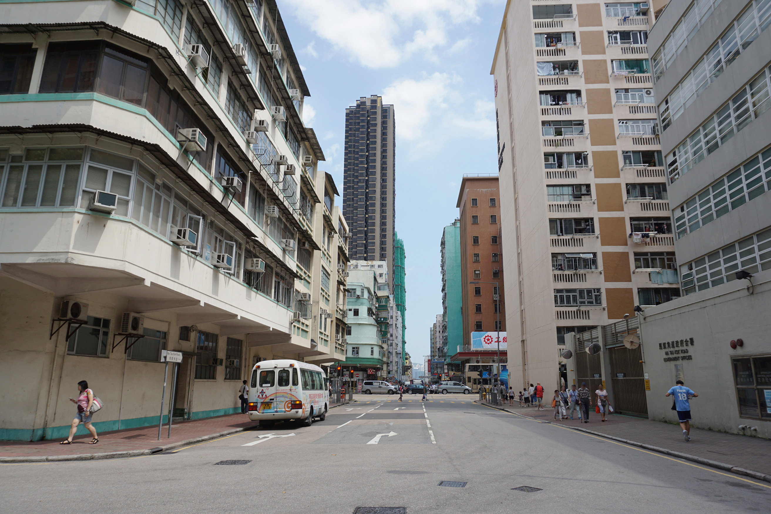 Ma Tau Kok Road in To Kwa Wan, Hong Kong.